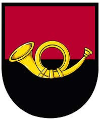 Coat of arms of Rudná town, Prague-West District, Czech Republic.